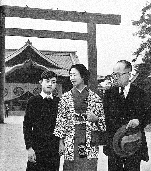 Japanese war-bereaved Family at Yasukuni Shrine